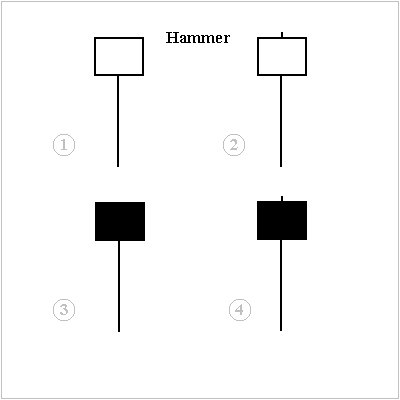 Hammer (Candlestick pattern)